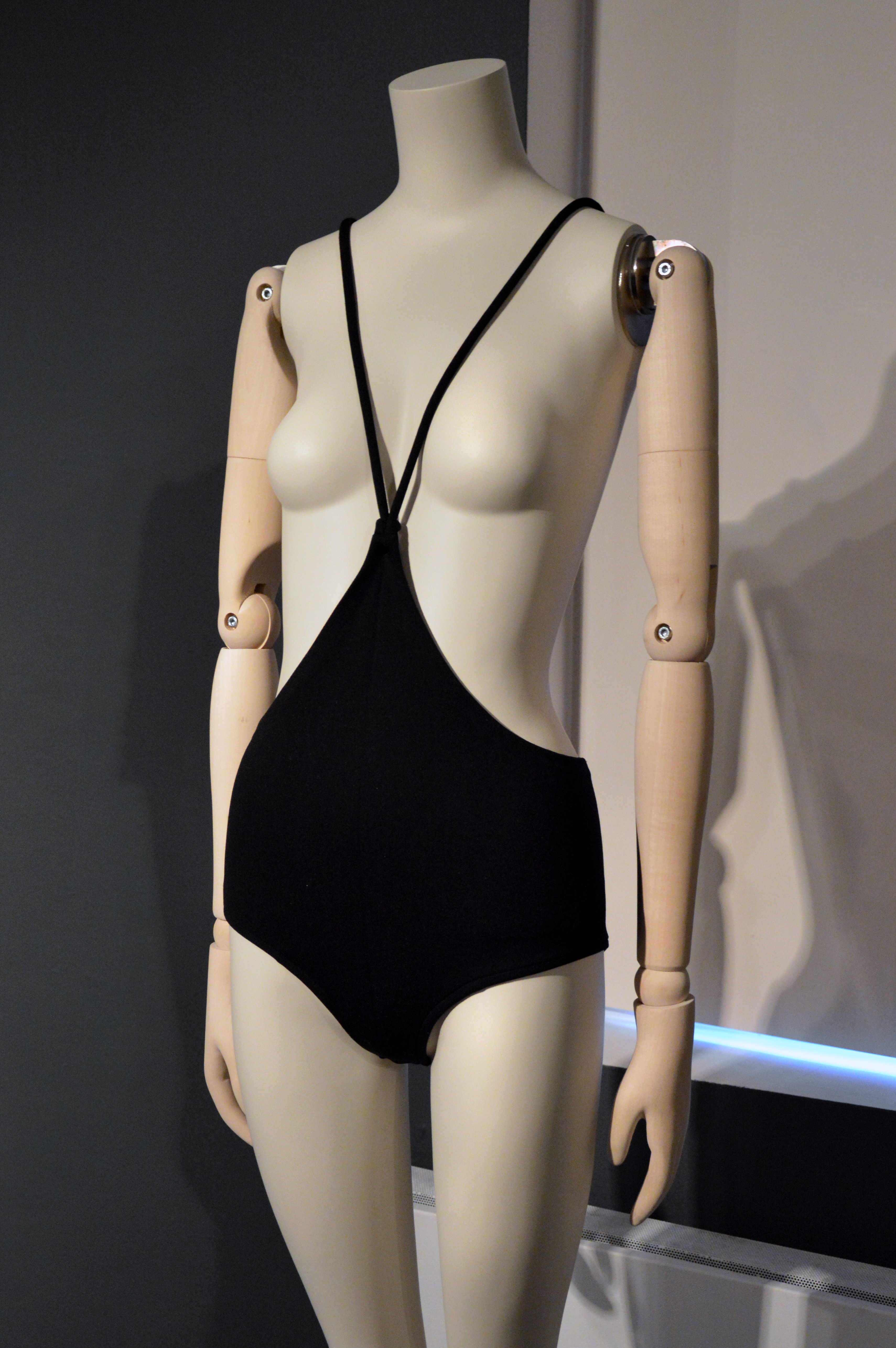 Bathing costume, designed by Rudi Gernreich, United States, c. 1964. Collection of Modemuseum Hasselt. Rudi Gernreich was the first designer to design and have manufactured a topless bathing costume. The design caused great controversy and generated a massive amount of publicity and notoriety for the designer. It was modelled by Peggy Moffitt in what has become a famous photograph.